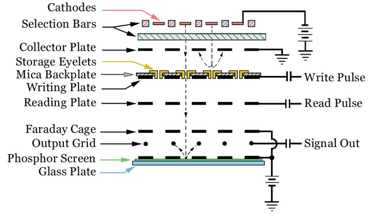 Cross section cartoon of the 256-bit version of the RCA Selectron digital computer memory tube